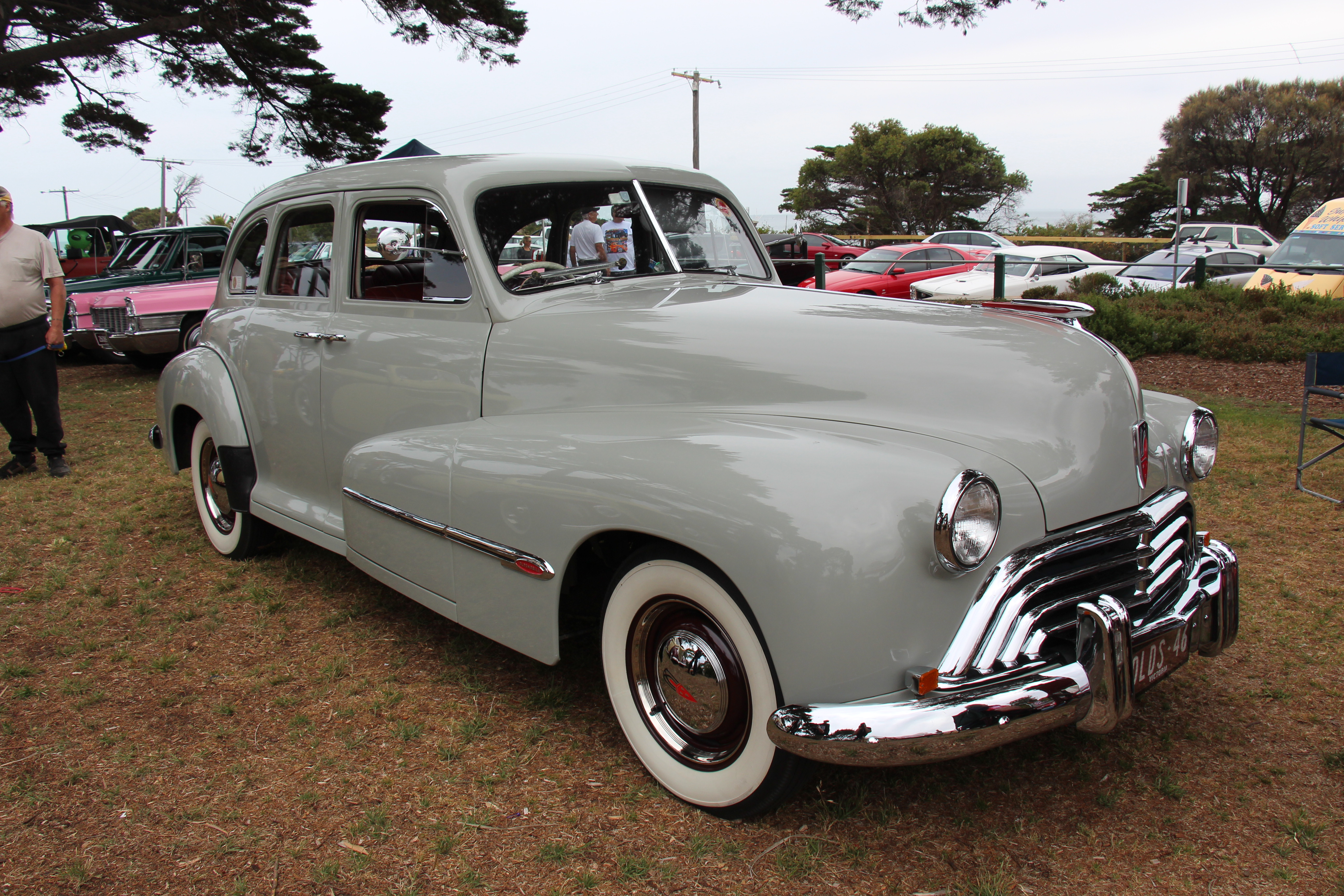 Eagle Gray. The last pre-war Oldsmobile rolled off the assembly line on Feb 5, 1942. During World War II, Oldsmobile produced numerous kinds of material for the war effort, including large-caliber guns and shells. Production resumed on Oct 15, 1945 with a warmed-over 1942 with a new grille, In 1946, they were available in base 66, mid 76 and top 98, and in 4 door sedan, 2 door coupe and convertible. Oldsmobiles were built in Australia by GMH from 1923 to 29 and also from 1934 to 48. The last of these Australian built cars, 1946-48 were called the Series 66 Oldsmobile Ace, they had the most local content ever, even the chassis was assembled here. The bodies were shared with Chevrolet and Pontiac GMH cars